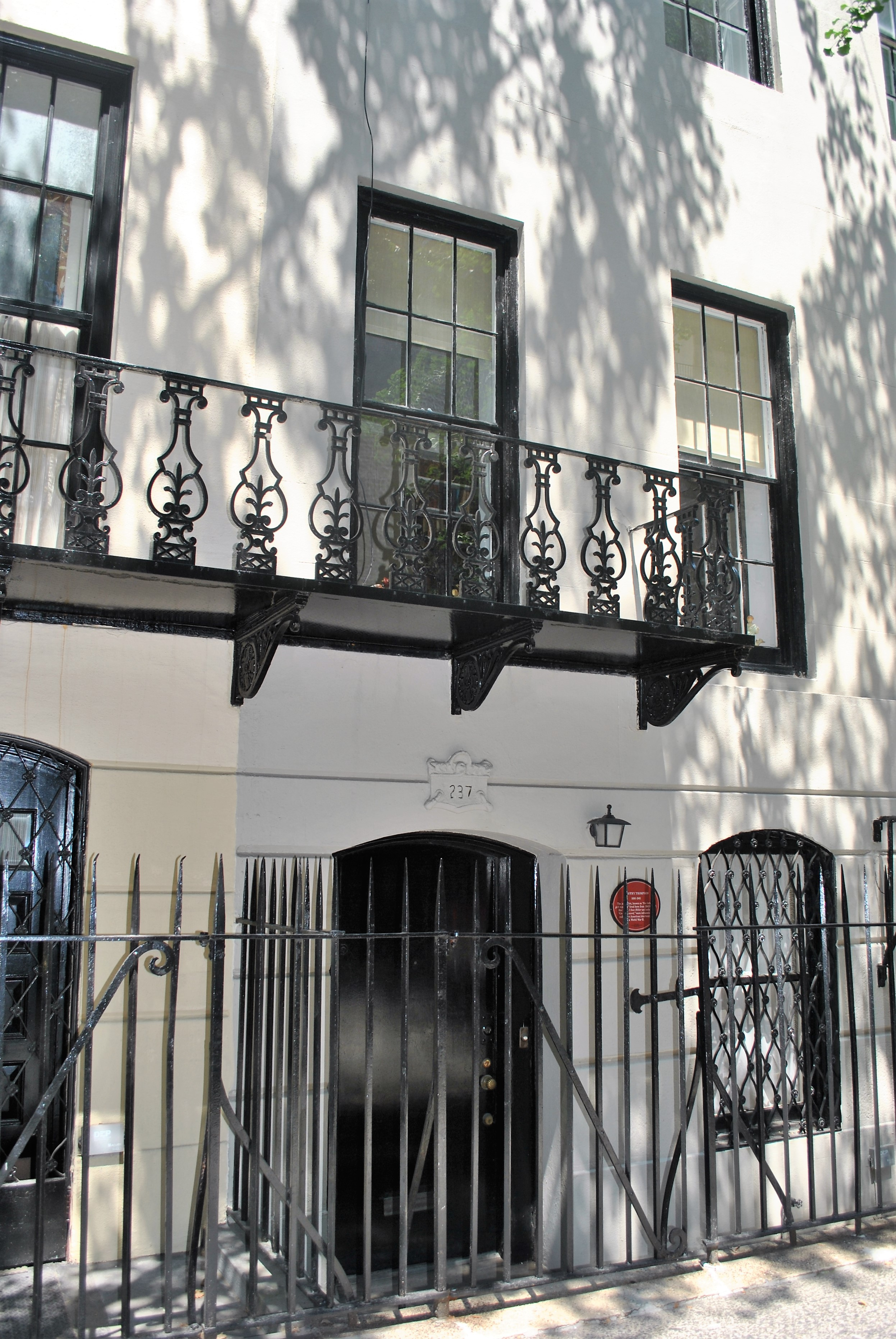 Image originally published in Queer Places: Retracing the Steps of LGBTQ people around the World Authored by Elisa Rolle